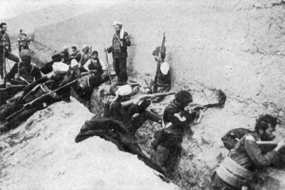 Armenians in Van during the Siege of Van.